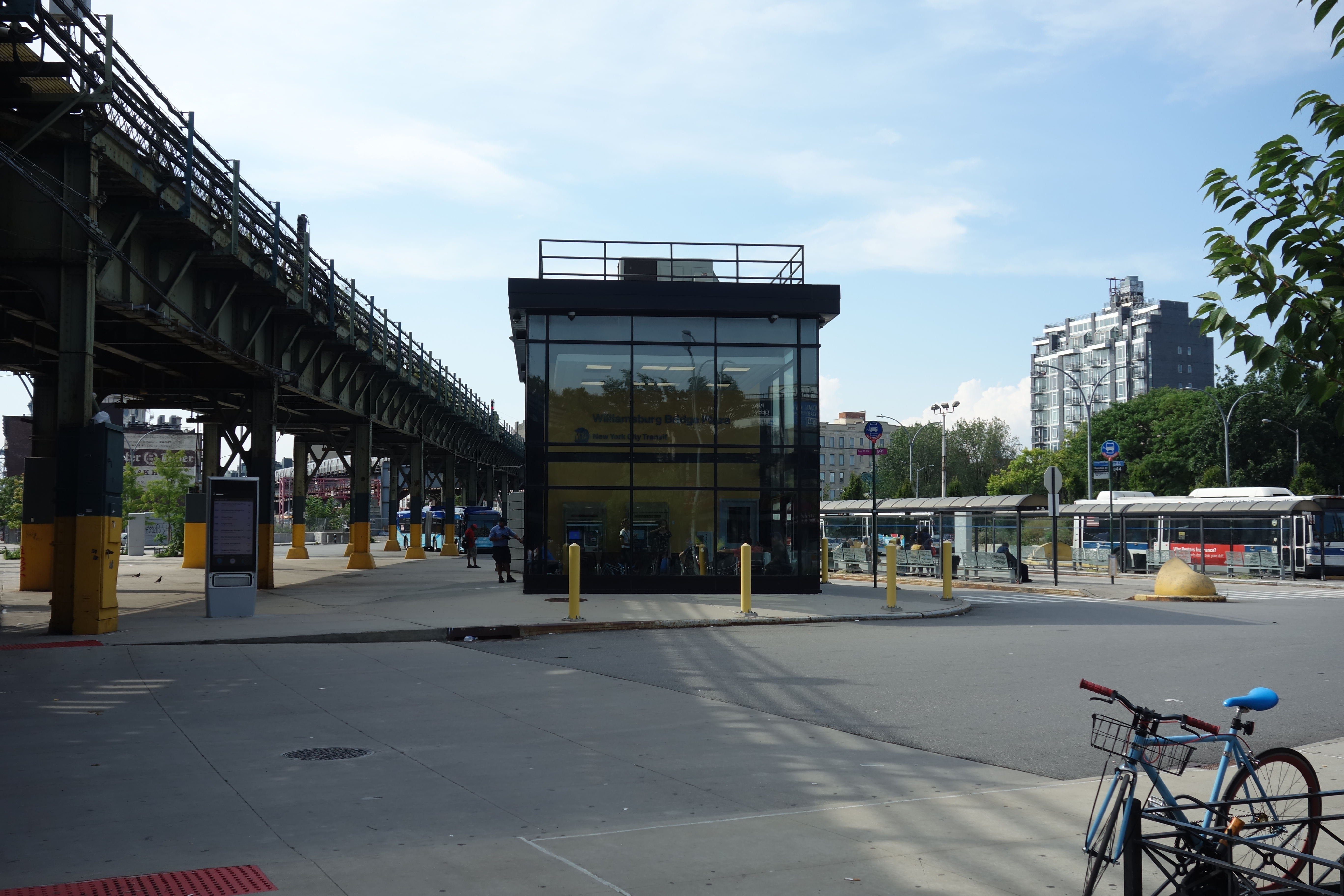 The new glass building (a station house, if you will) at the entrance to the Williamsburg Bridge Plaza Bus Terminal, on Havemeyer Street between Broadway and South 5th Street in Williamsburg, Brooklyn. The building was constructed during the 2017 renovations to the terminal; half of it is occupied by a waiting room with MetroCard machines, and the other half by an MTA dispatchers facility. It is a bit small, I must say.